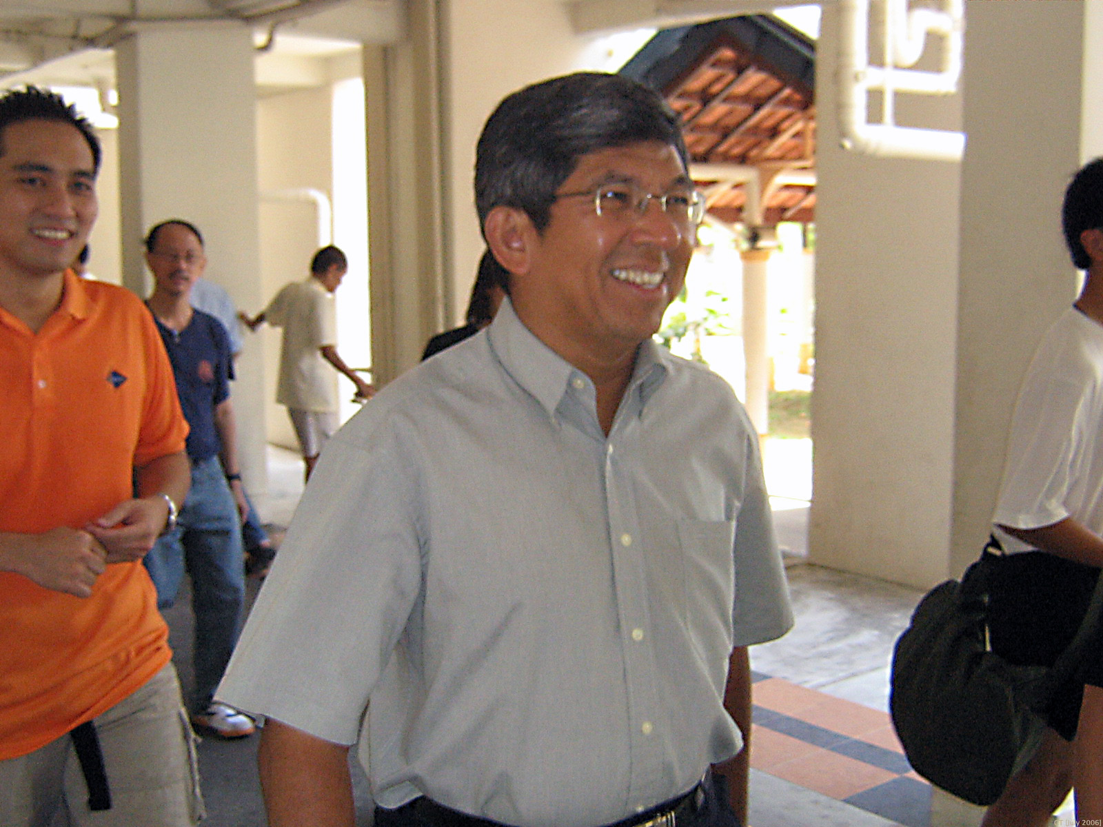 Yaacob Ibrahim (born 3 October 1955), a Singapore politician with the People's Action Party, is the Minister for the Environment and Water Resources and Minister-in-charge of Muslim Affairs in Singapore. He was formerly the Minister for Community Development and Sports.